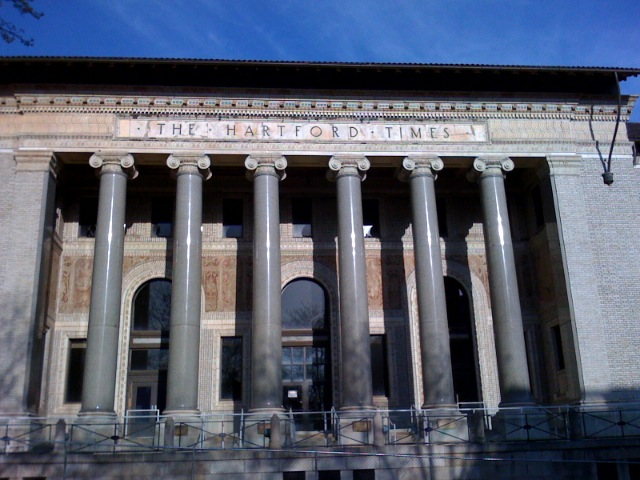 Former Hartford Times Bldg, Hartford, CT